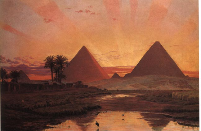 Pyramids of Gizeh — Sunset Afterglow